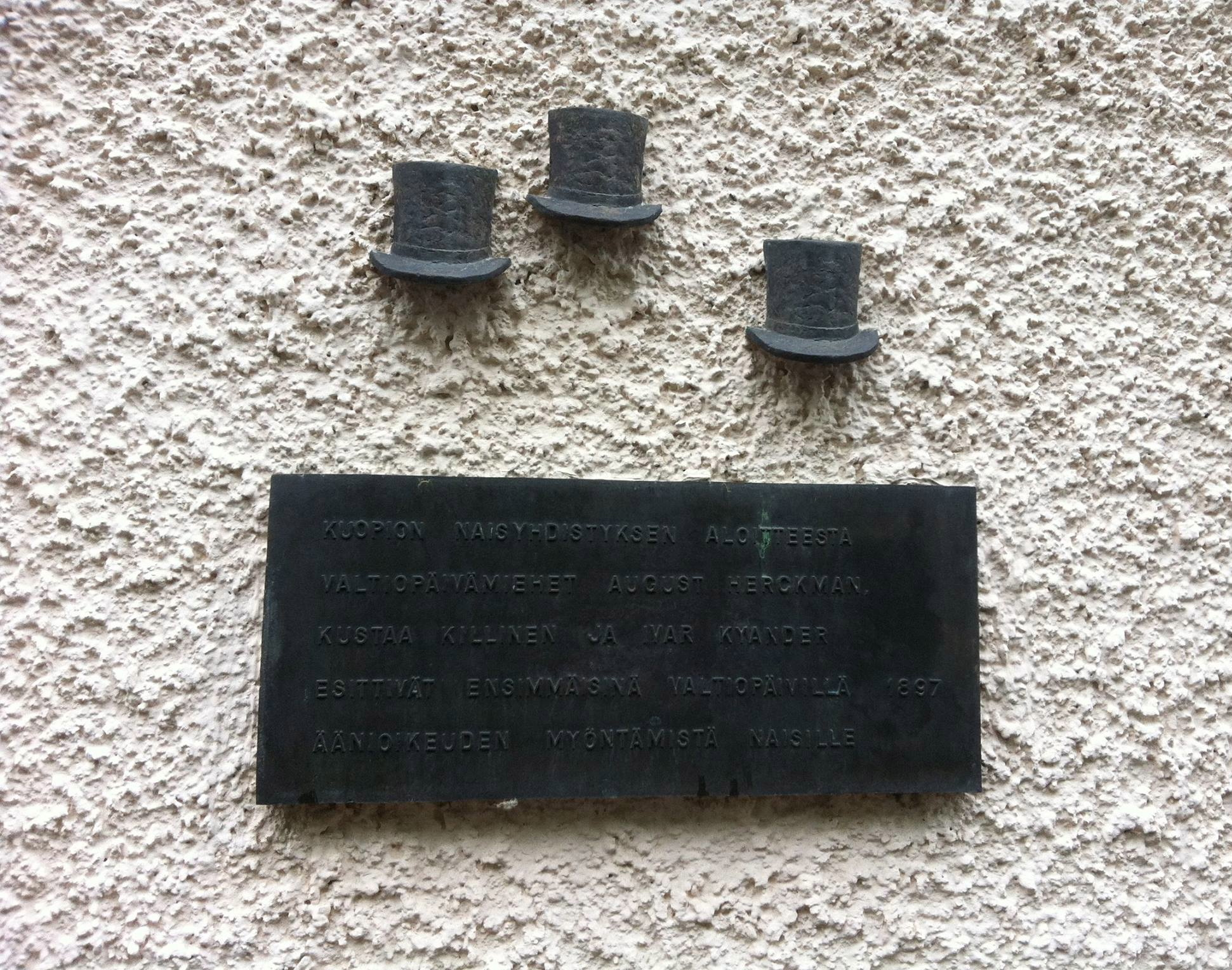 Memorial art work by artist Taru Mäntynen, 2001. Kuopio, Finland